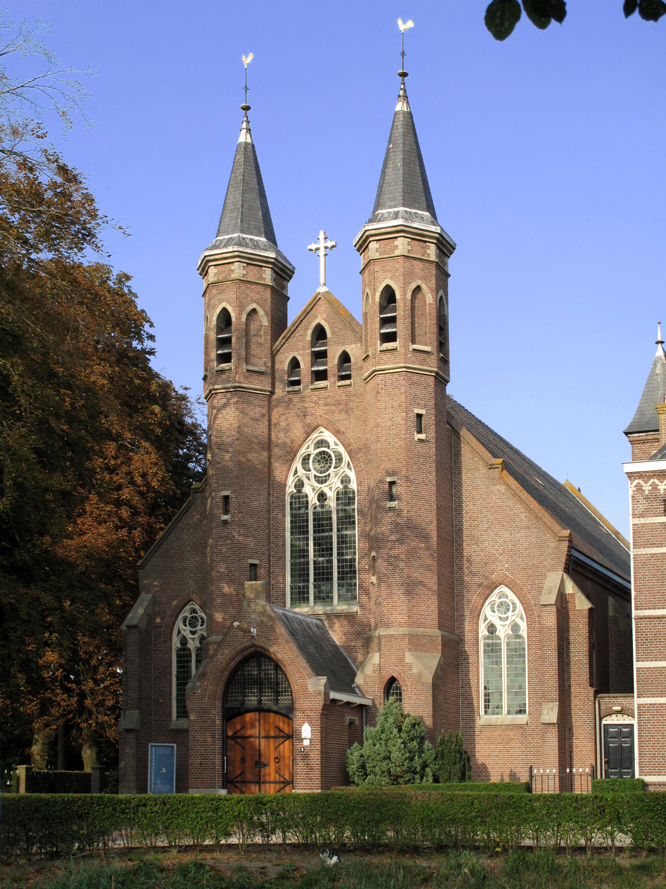 Heinkeszand, church: Sint Blasiuskek